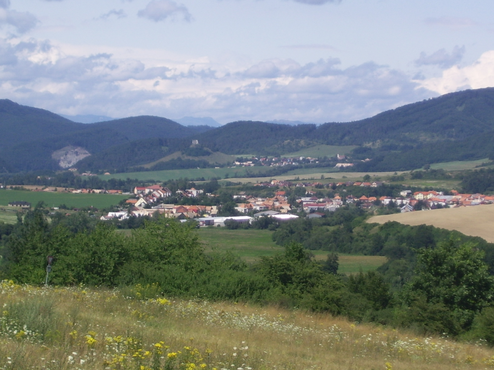 Panorama of Dobrá Niva, Slovakia